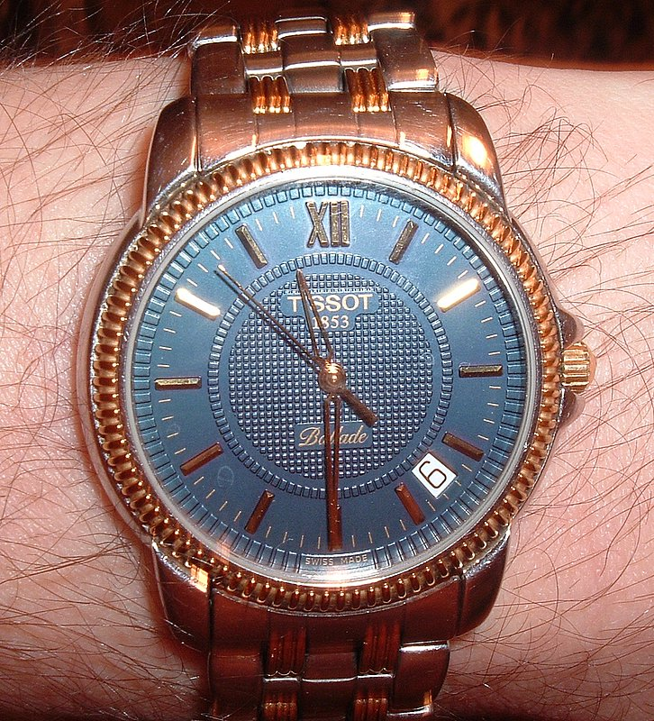 Description: Ballade. Tissot Date: 06/05/2005 Author: Alex Chupryna License: GFDL